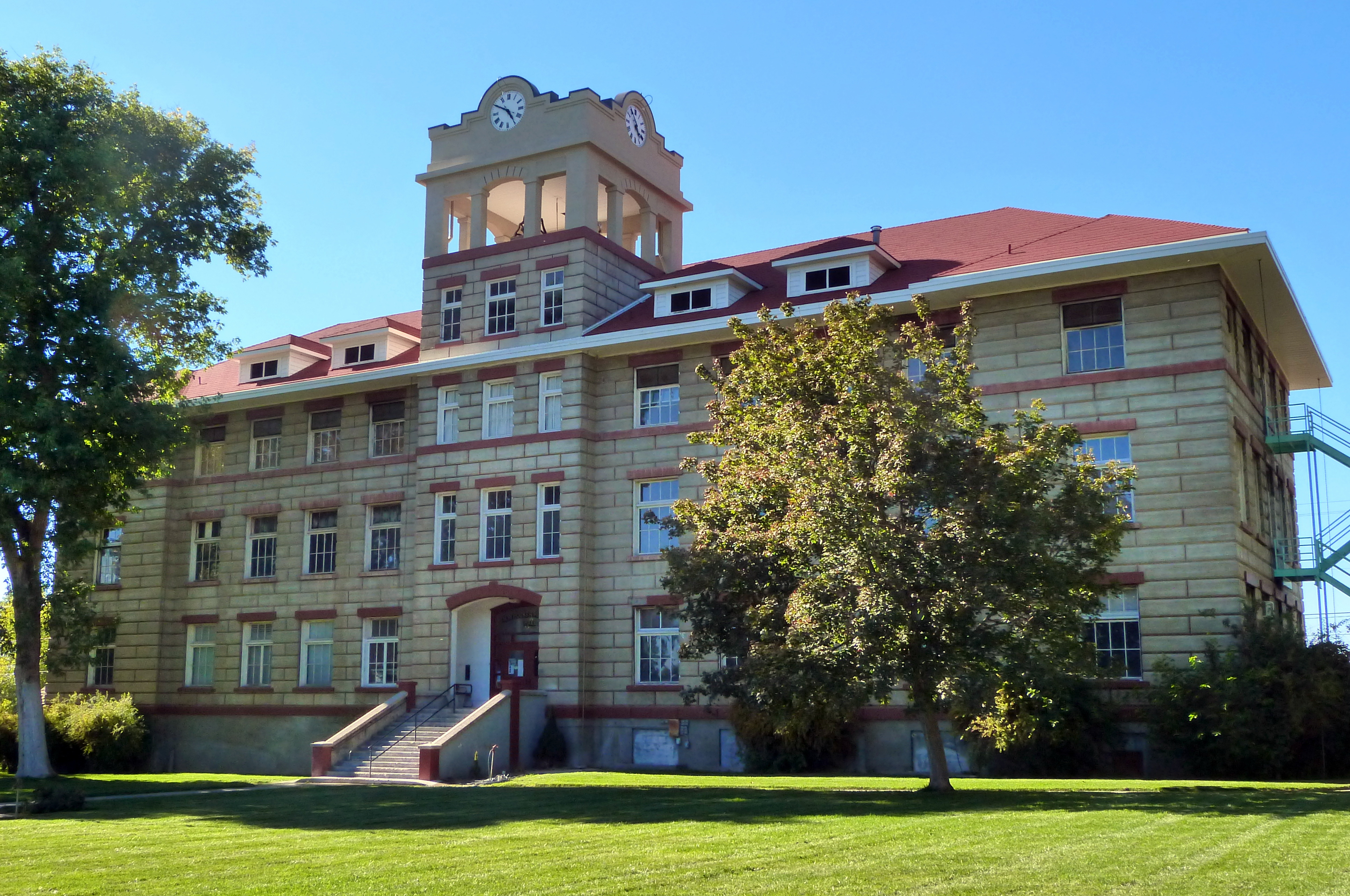 The historic H. M. Hooker Memorial Hall (built 1924), located on Paddock Avenue in Weiser, Idaho, United States, is listed as a contributing resource in the Intermountain Institute historic district. The district is listed on the US National Register of Historic Places.